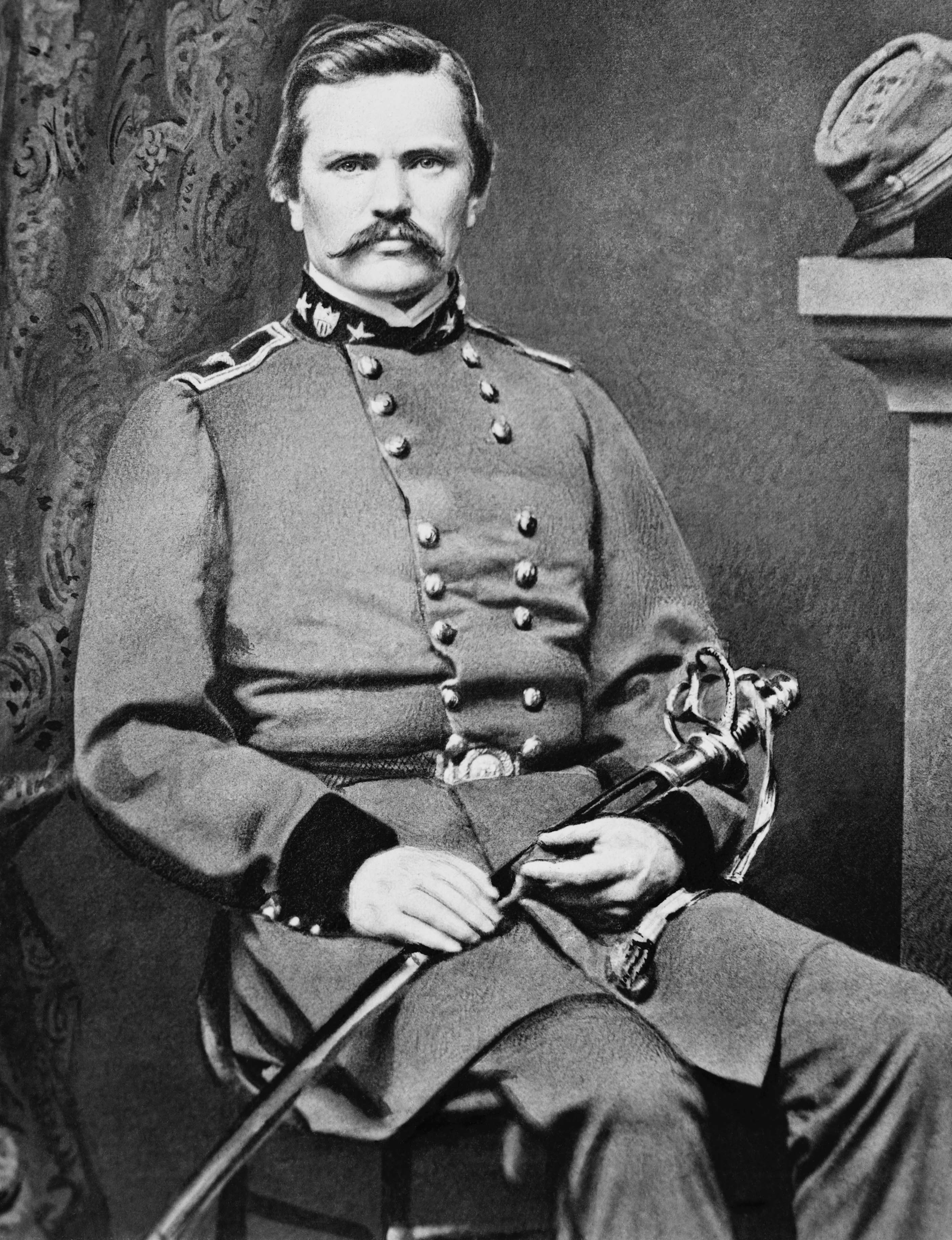 Picture of Simon Bolivar Buckner Sr.